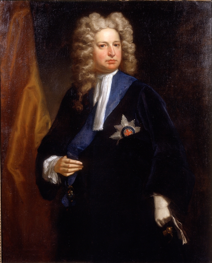 Robert Harley, 1st Earl of Oxford and Earl Mortimer (1661-1724)